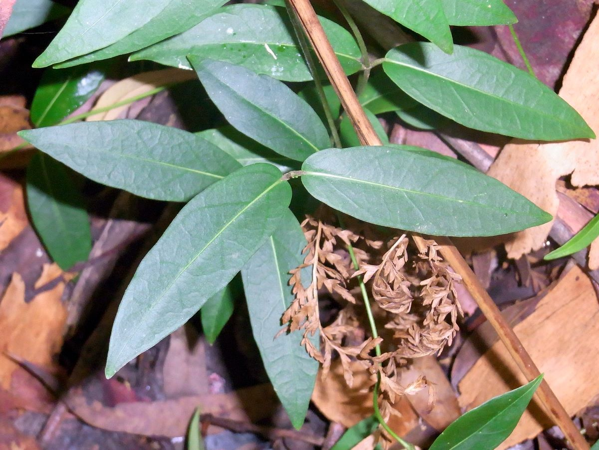 vine Chatswood West, possibly Marsdenia suaveolens